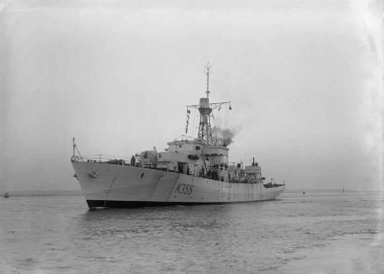 Photograph of British corvette HMS Hadleigh Castle.